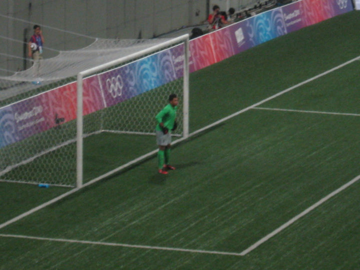 Fashah Rosedin of the Singapore U16s in a 2010 Summer Youth Olympic match against Montenegro.